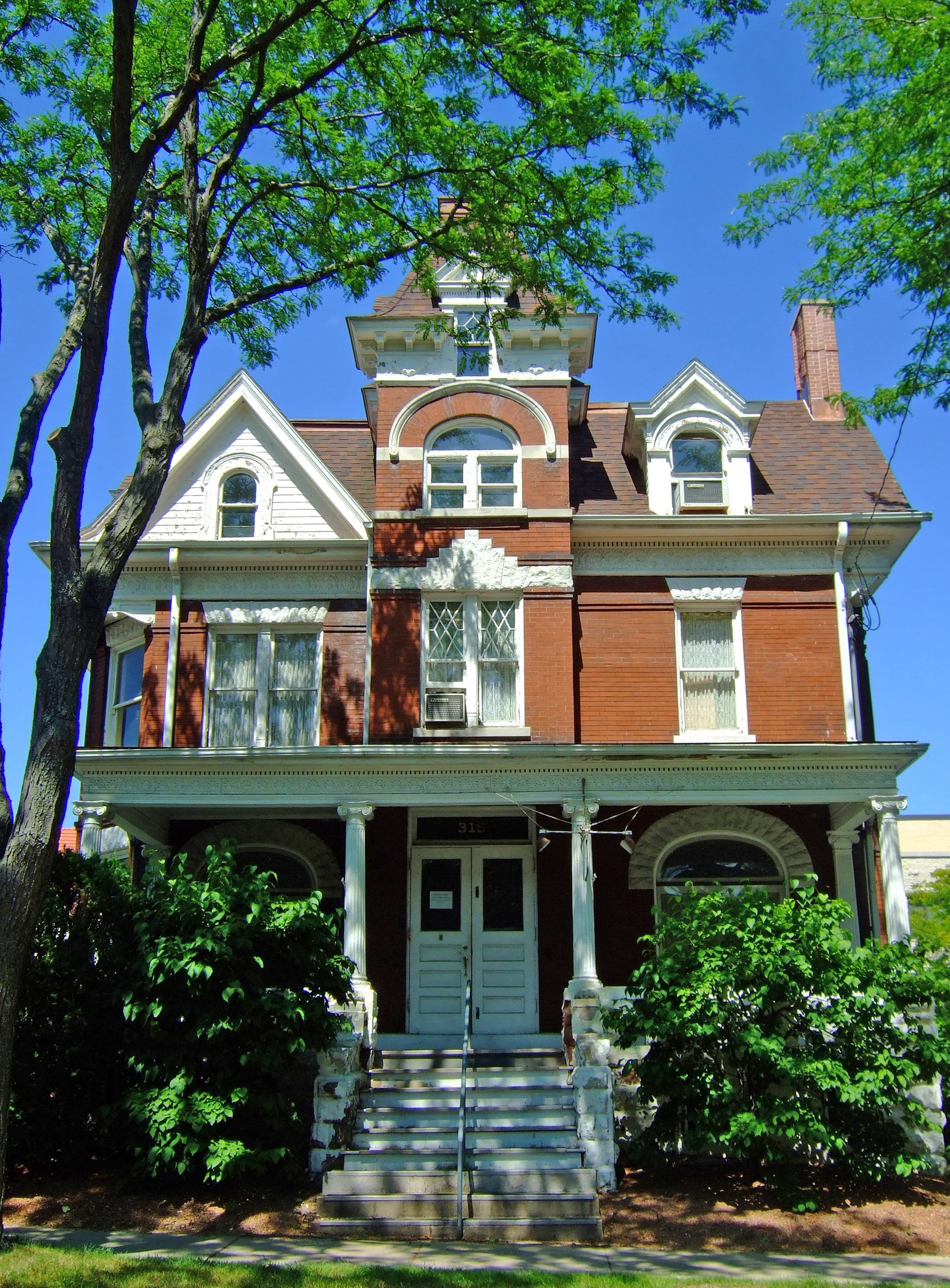 The Halle Steensland House at 315 N. Carroll Street in Madison, Wisconsin, was designed ca. 1893 by Gordon and Paunack in the Queen Anne/Edwardian style. It was added to the National Register of Historic Places in 1982.